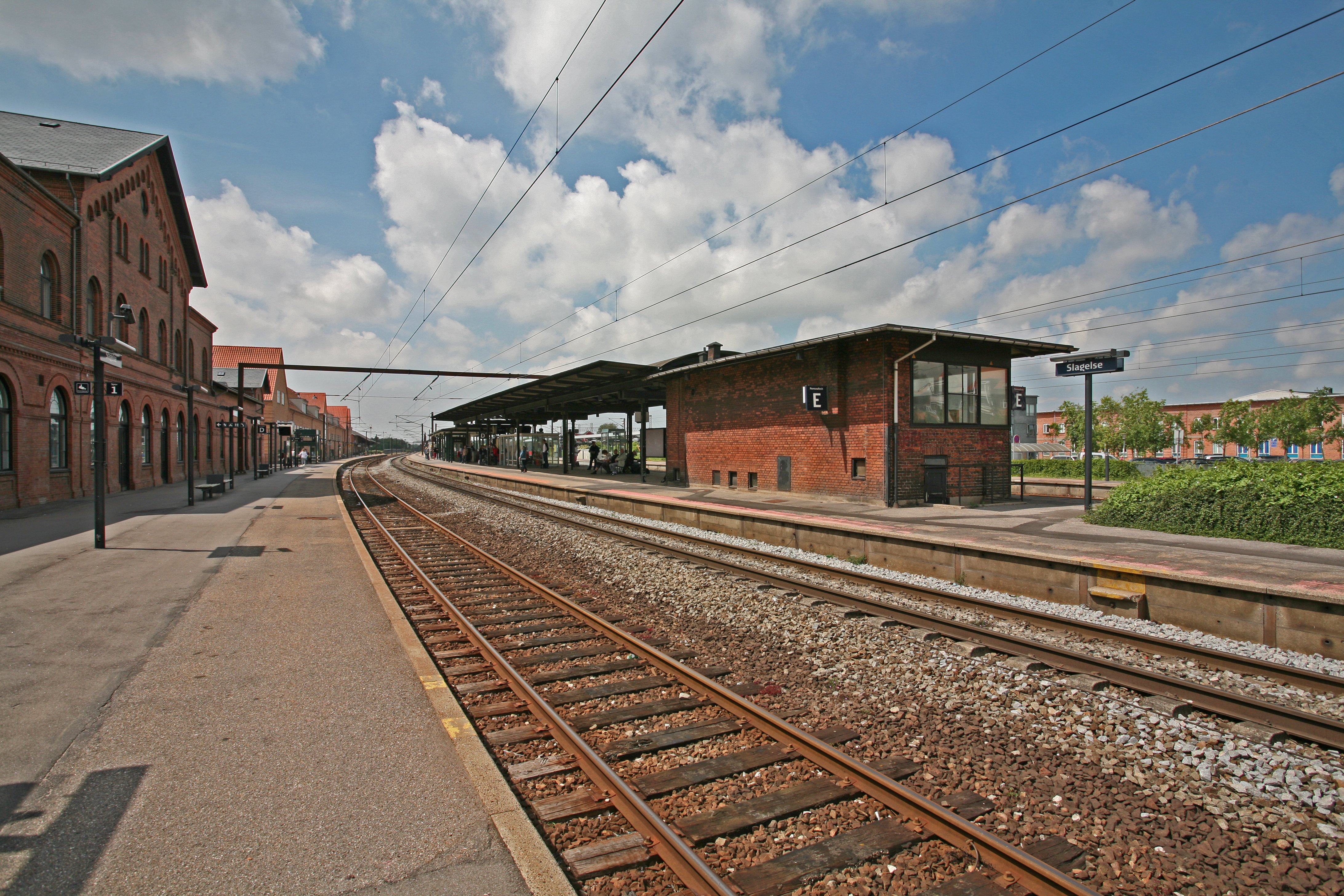 Picture of Slagelse Railway Station (Slagelse - Denmark)